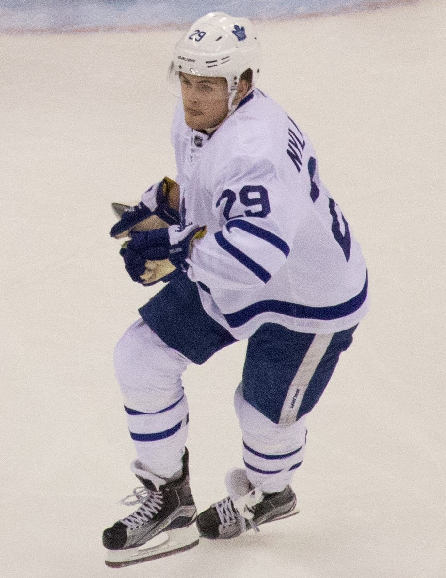 William Nylander playing the Capitals